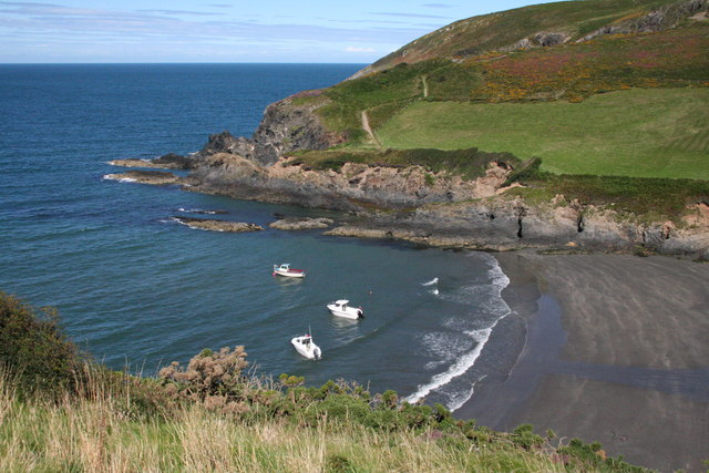 Pwllgwaelod bay with boats This is a view from the coast path looking down to Pwllgwaelod bay.